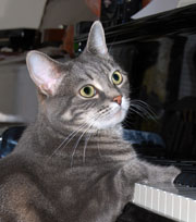 Nora The Piano Cat at the ivories. Photo by Burnell Yow!